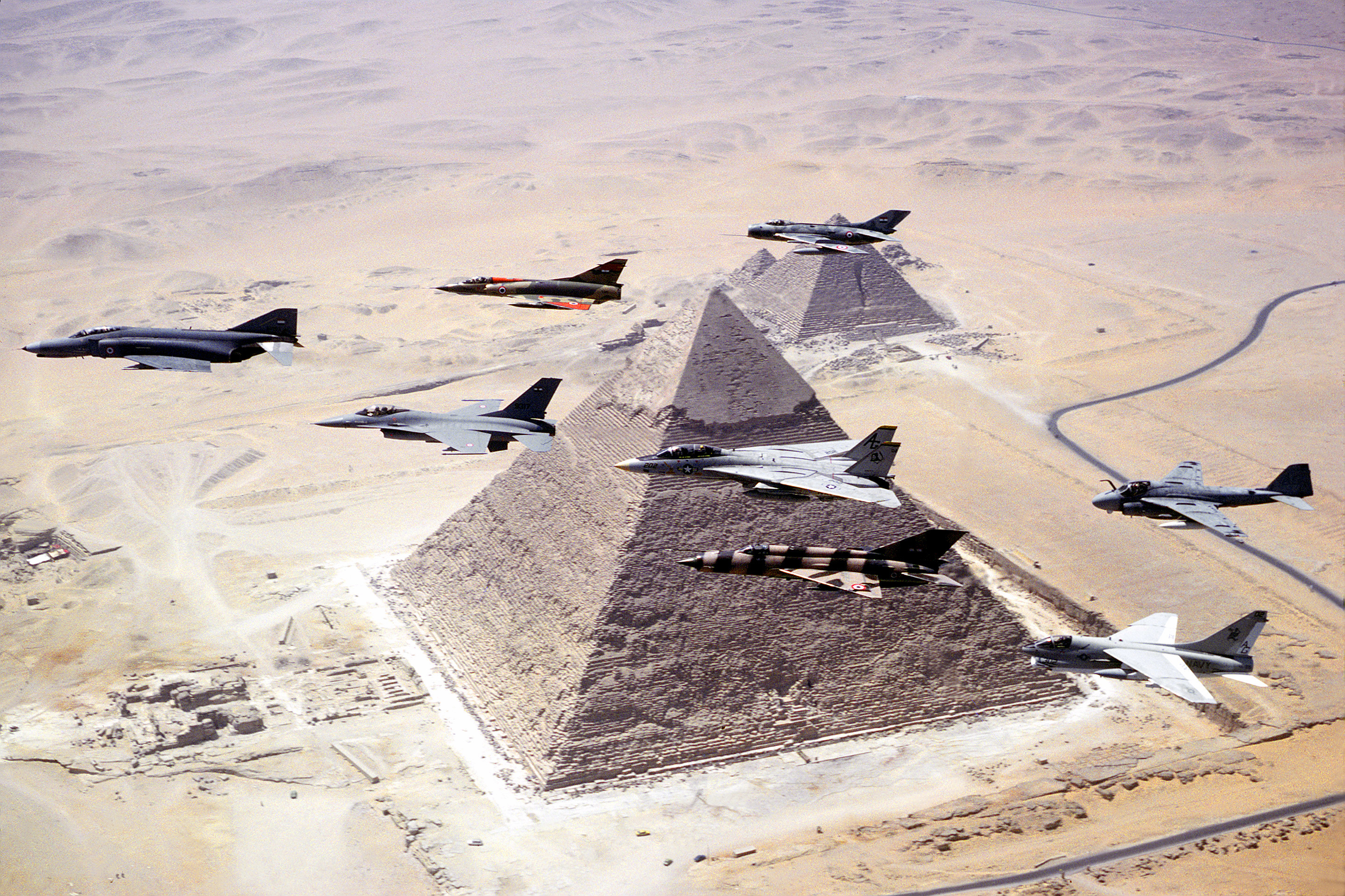 A formation of Egyptian and U.S. Navy aircraft fly over one of the Great Pyramid near Cairo during Bright Star '83. Unless indicated all are Egyptian Air Force aircraft (L to R) F-4 Phantom, F-16 Falcon, Mirage 2000, U.S. Navy F-14 Tomcat, MiG-21 Fishbed, MiG-19, U.S. Navy A7D Corsair and U.S. Navy A-6E Intruder.